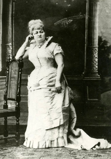 Draginja Ruzic (1834-1905), Serbian actress, prima donna of the Serbian National Theatre in Novi Sad.